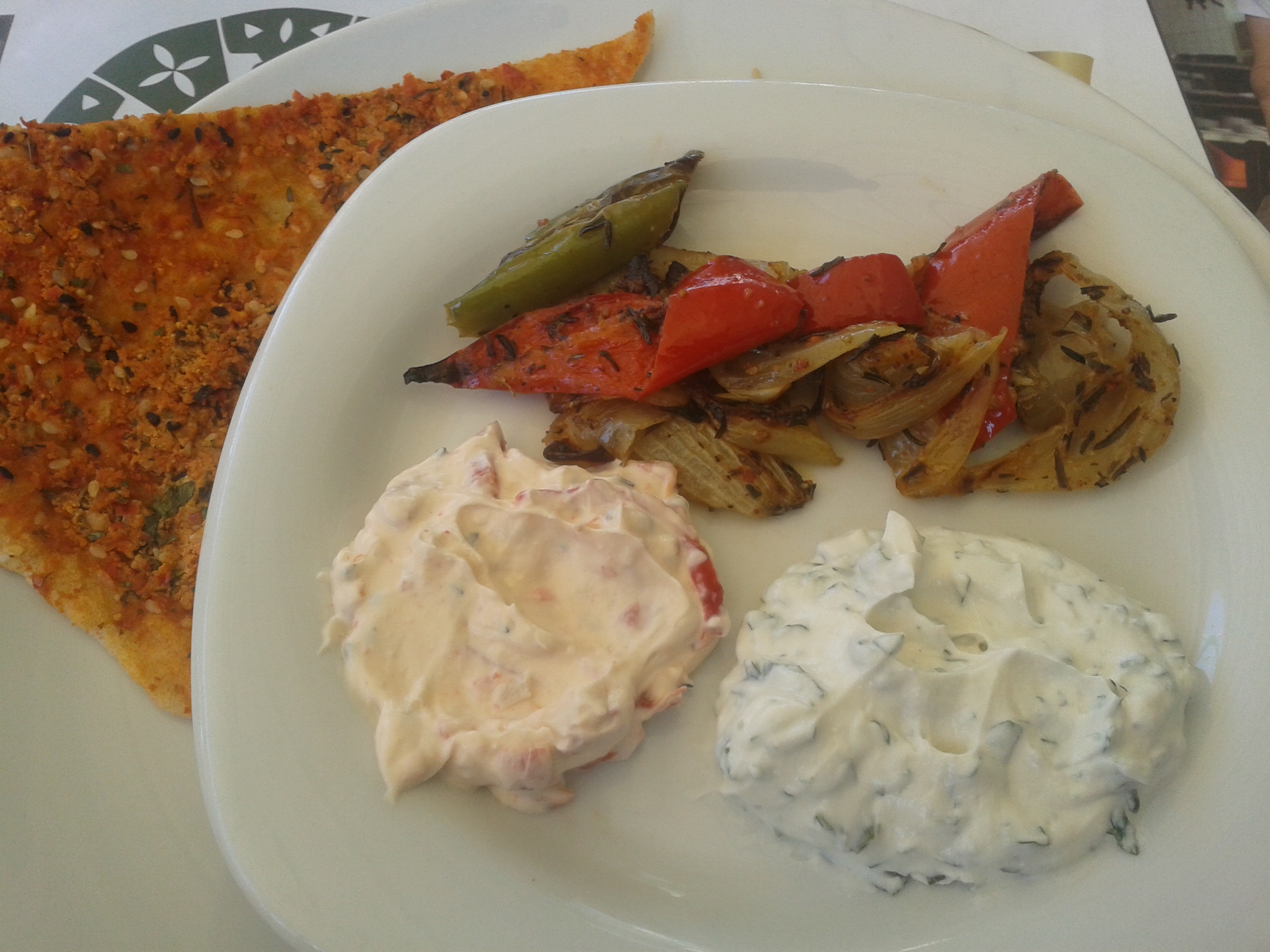 "Katıklı ekmek" with "haydari", and other courtesy amuse-bouche at a restaurant in Ankara.